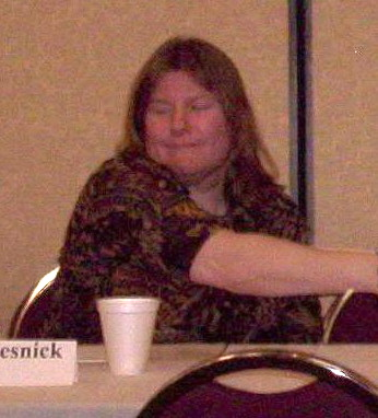 Michaele Jordan, Laura Resnick, and Jim C. Hines playing RPS to see who reads first.